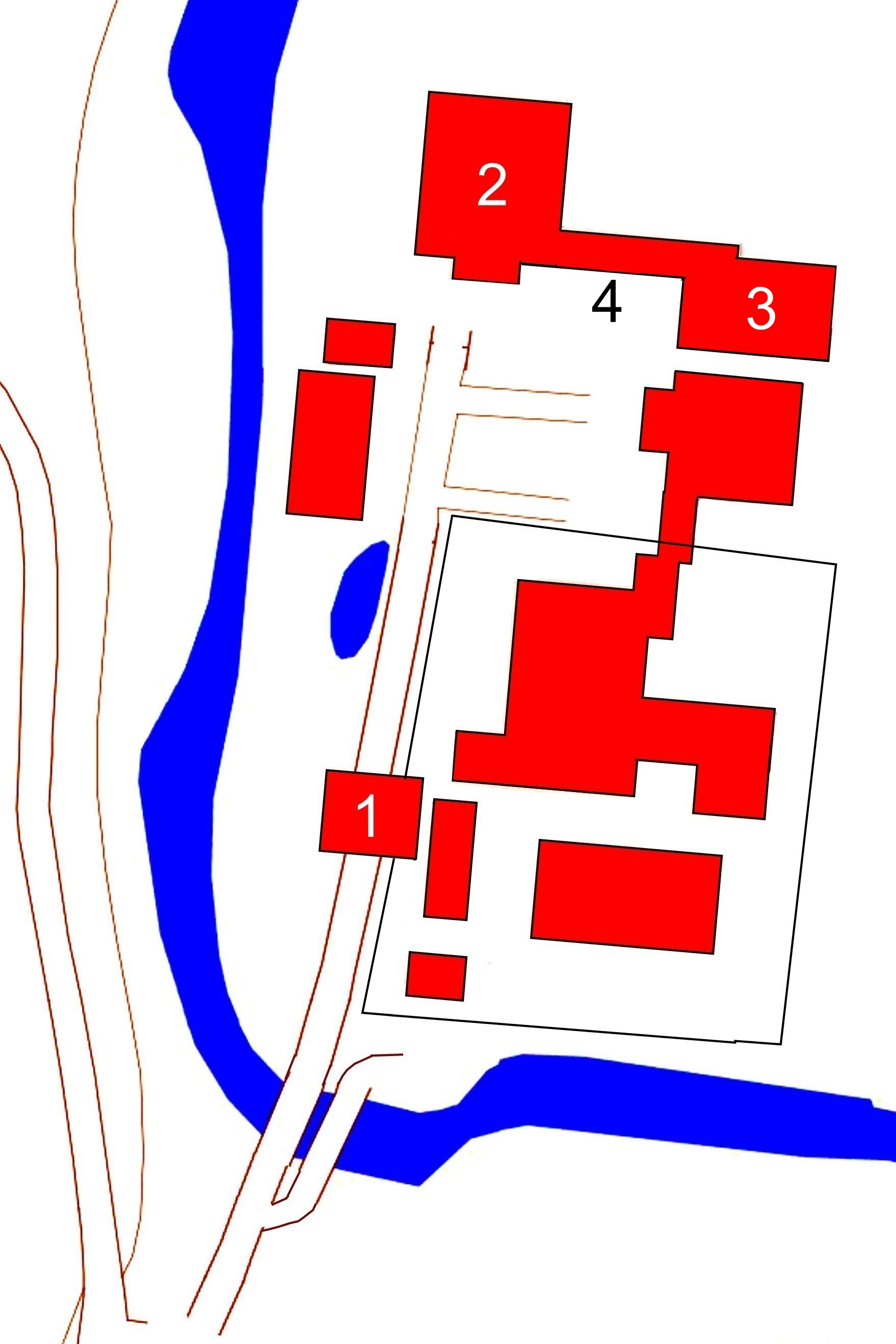 Layout of Dainichi temple at Itano, Tokushima Prefecture